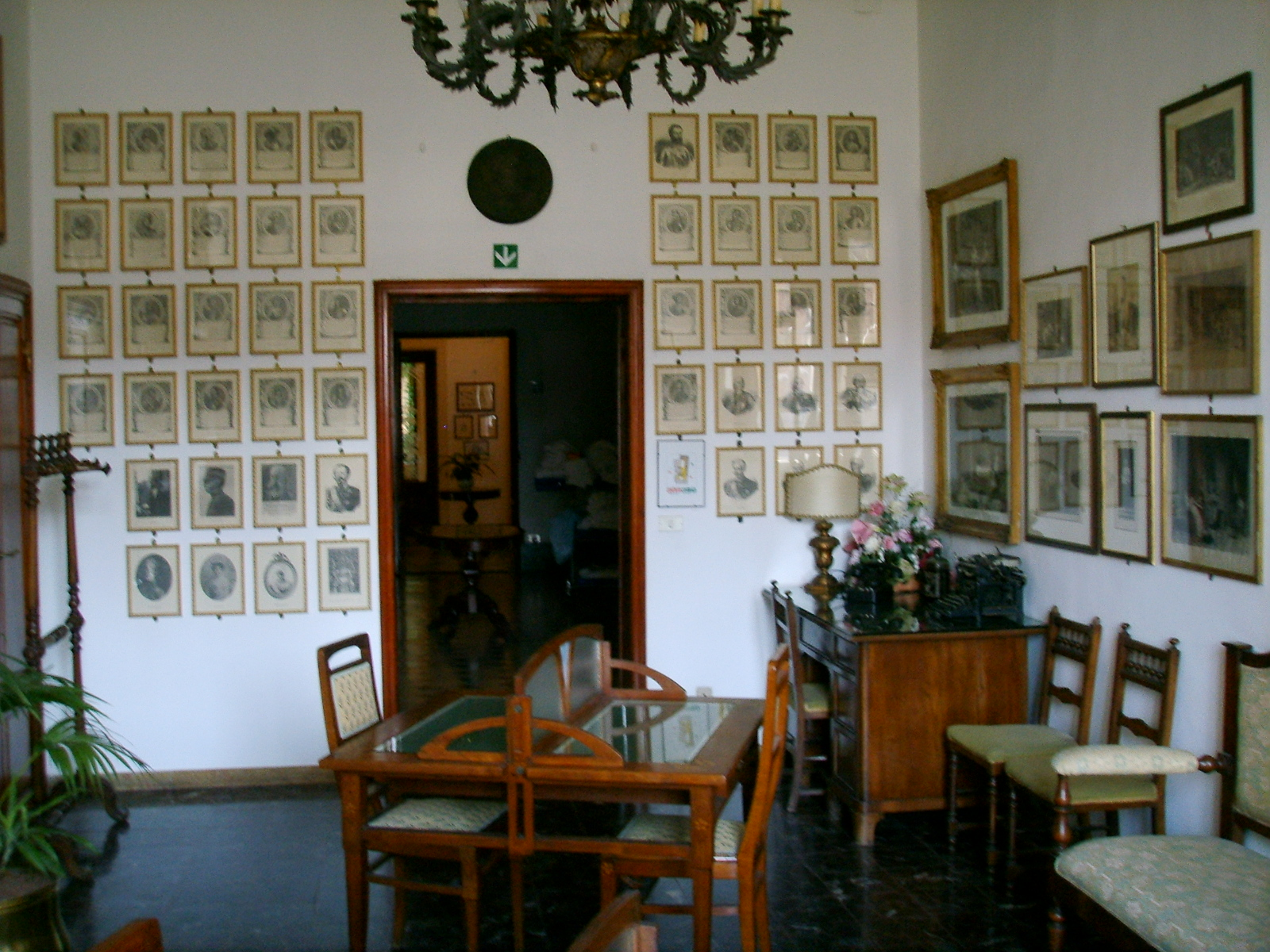 Royal hotel victoria